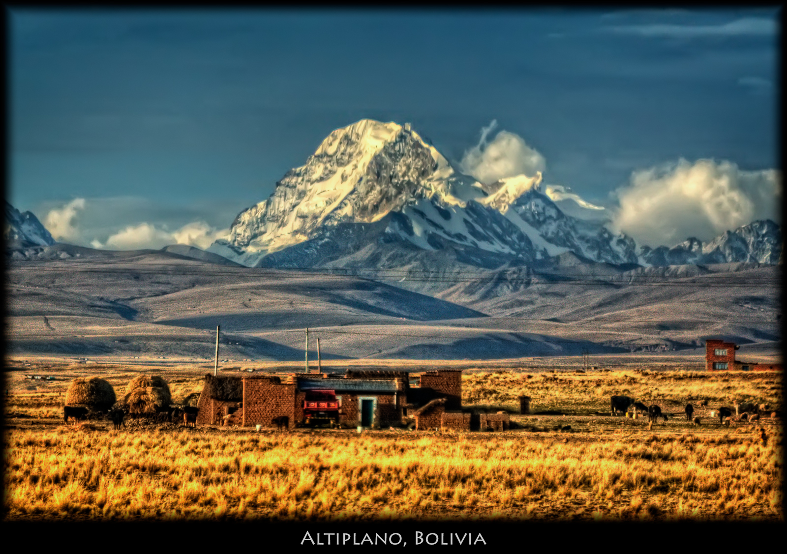 The bus ride from Copacabana in Lake Titicaca to La Paz is several hours. Not too bad because the scenery is beautiful. Nicer large. Purchase prints at printing cost (e.g., $1.99 for 8x10) at SmugMug. ISO 400, 135mm, f5.6, 1/1000, shot from a relatively fast moving bus. Processed in Photomatix first, which gave it the strong yellow tones. Used Nik Tonal Contrast and Pro Contrast and dodge, burn and desaturation in PS. The geo-tag is approximate.